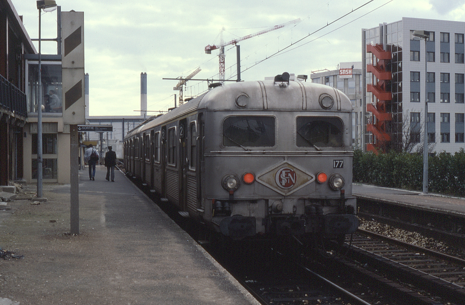 Paris once had an extensive 3rd rail system electrified at 850V dc. The final section to last was the line from Puteaux to Issy-Plaine. Seen at Issy-Plaine on 8 April 1987 is a 2-car EMU, Z5177. By this point 6 of the units had their pantographs removed and had their centre cars removed, originally being 3-car and dual voltage. The units were constructed in the 1950s to work Paris suburban services although some sets were cascaded to operate suburban services in other cities. In 1995 the line was closed to SNCF traffic for two years and in 1997 re-opened as part of tramway line T2 operated by RATP.